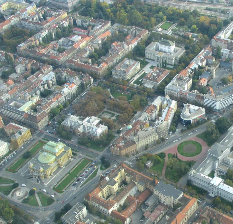 Center of Zagreb